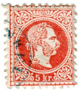 Austria-1867-Nr_36